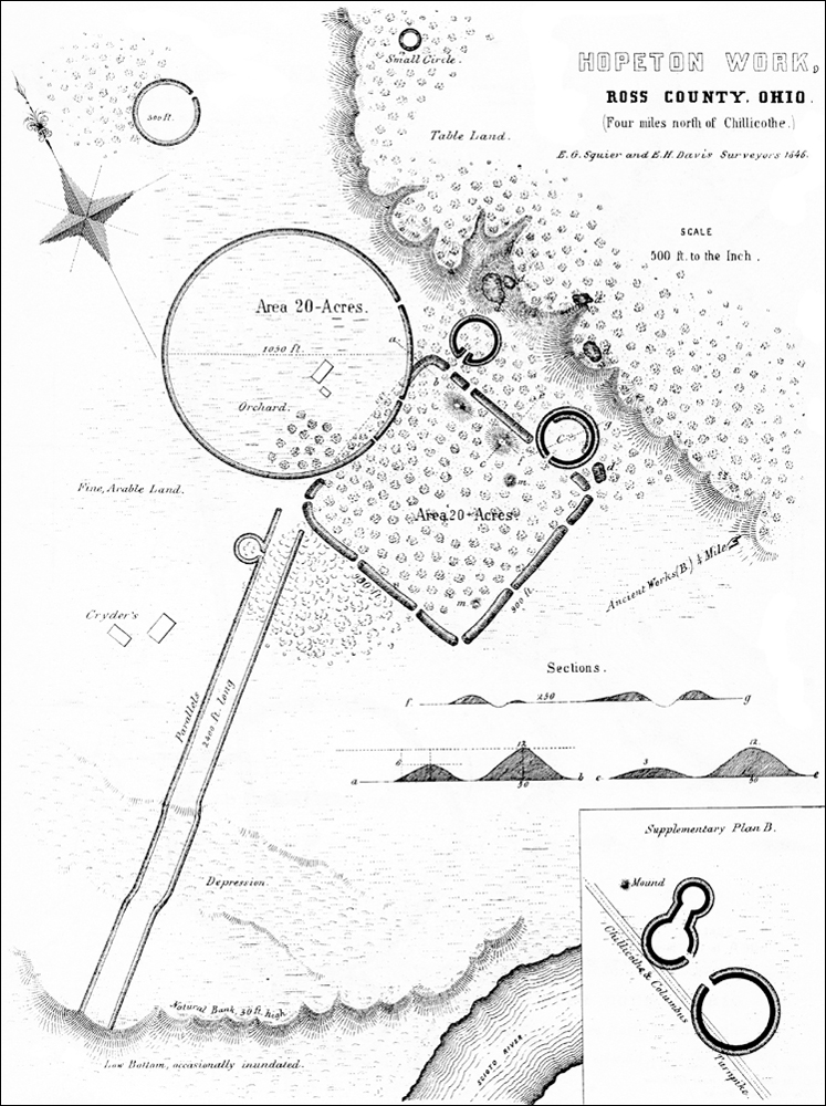 Squier and Davis engraving, plate number XVII, of the Hopeton Earthworks in Ross County, Ohio.